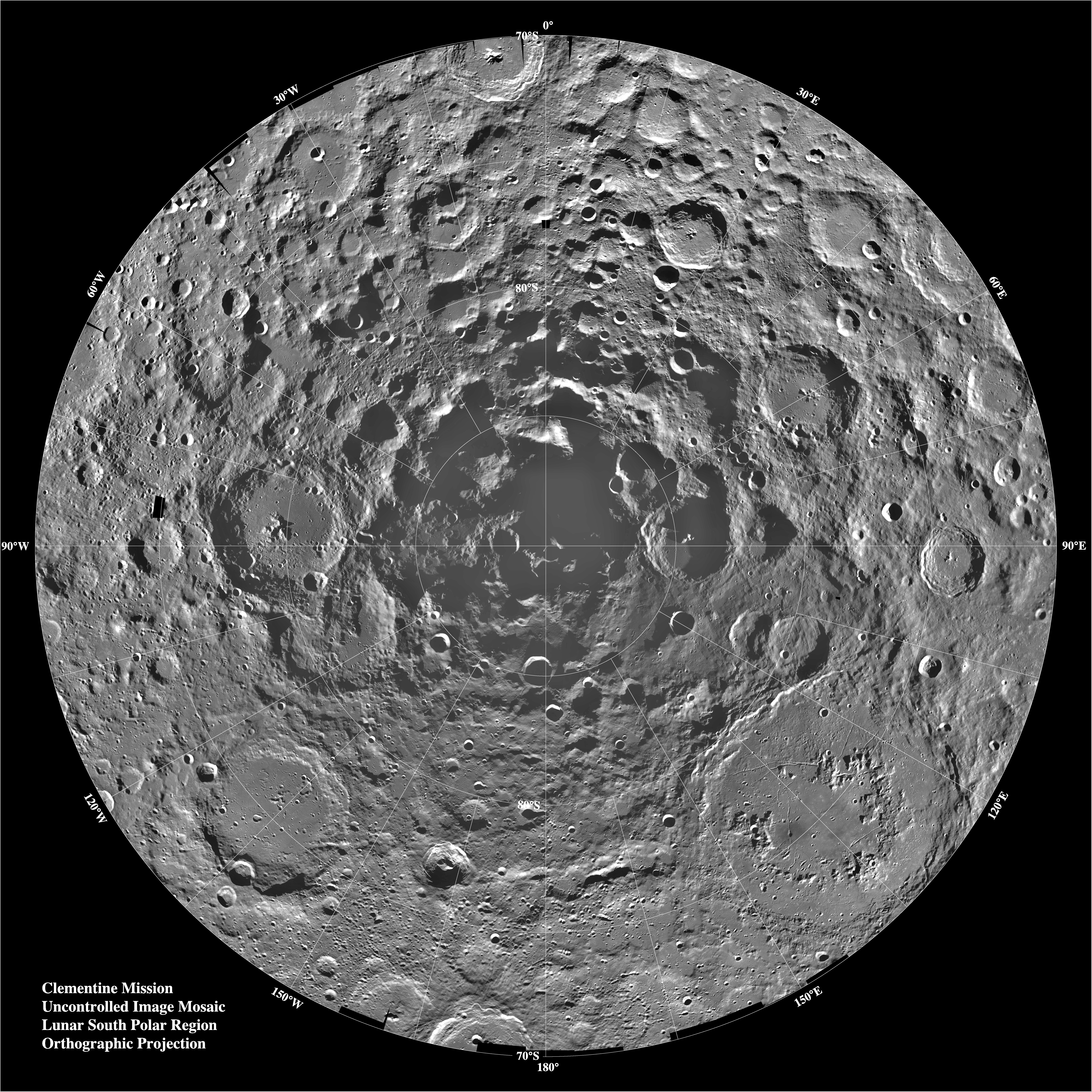 Lunar mosaic of ~1500 Clementine images of the south polar region of the moon. The projection is orthographic, centered on the south pole, and extends to 70°S. The Schrodinger Basin (320 km in diameter) is located in the lower right of the mosaic. Amundsen-Ganswindt is the more subdued circular basin between Schrodinger and the pole. The polar regions of the moon are of special interest because of the postulated occurrence of ice in permanently shadowed areas. The south pole is of greater interest because the area that remains in shadow is much larger than that at the north pole.